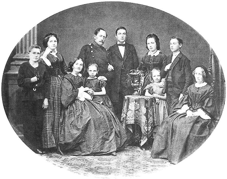 Family portrait of Ferdinand von Bültzingslöwen, from left to right: Henry (son, 1848-1870) Emilie (Emma) (daughter, * 1842) Emilie, nee Lange (wife, 1815-1896) Mathilde (daughter, 1852-1926), mother of Paula Modersohn-Becker Ferdinand von Bültzingslöwen Günther (oldest son, 1839-1889) Pauline (Paula) (daughter, 1840-1901) Hermine (Herma) (daughter, 1855-1940) Wulf (son, 1847-1907) Caroline (Tante Linchen), sister